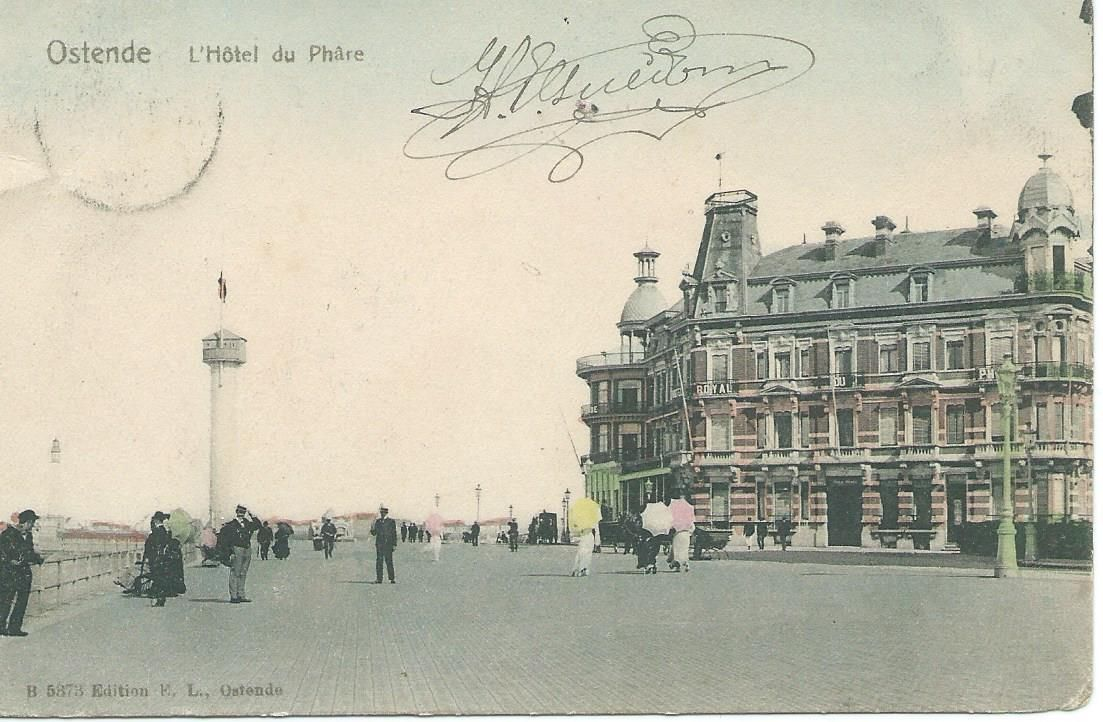 Hotel du Phare in Ostend